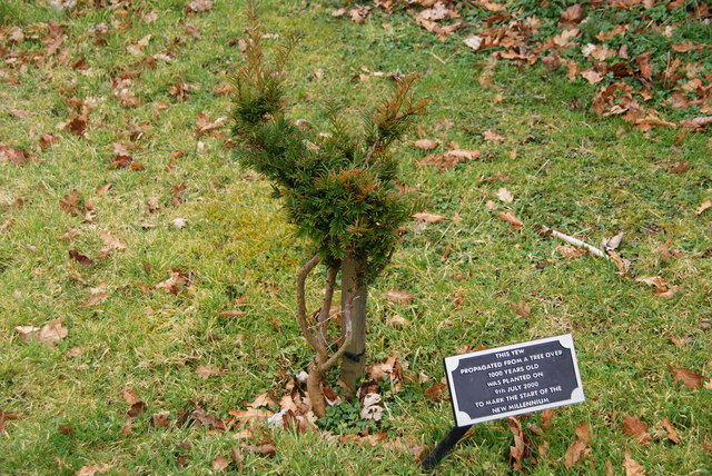 The millennium yew tree, Ratlinghope A new planting in the churchyard where there are already a couple of very old yews.